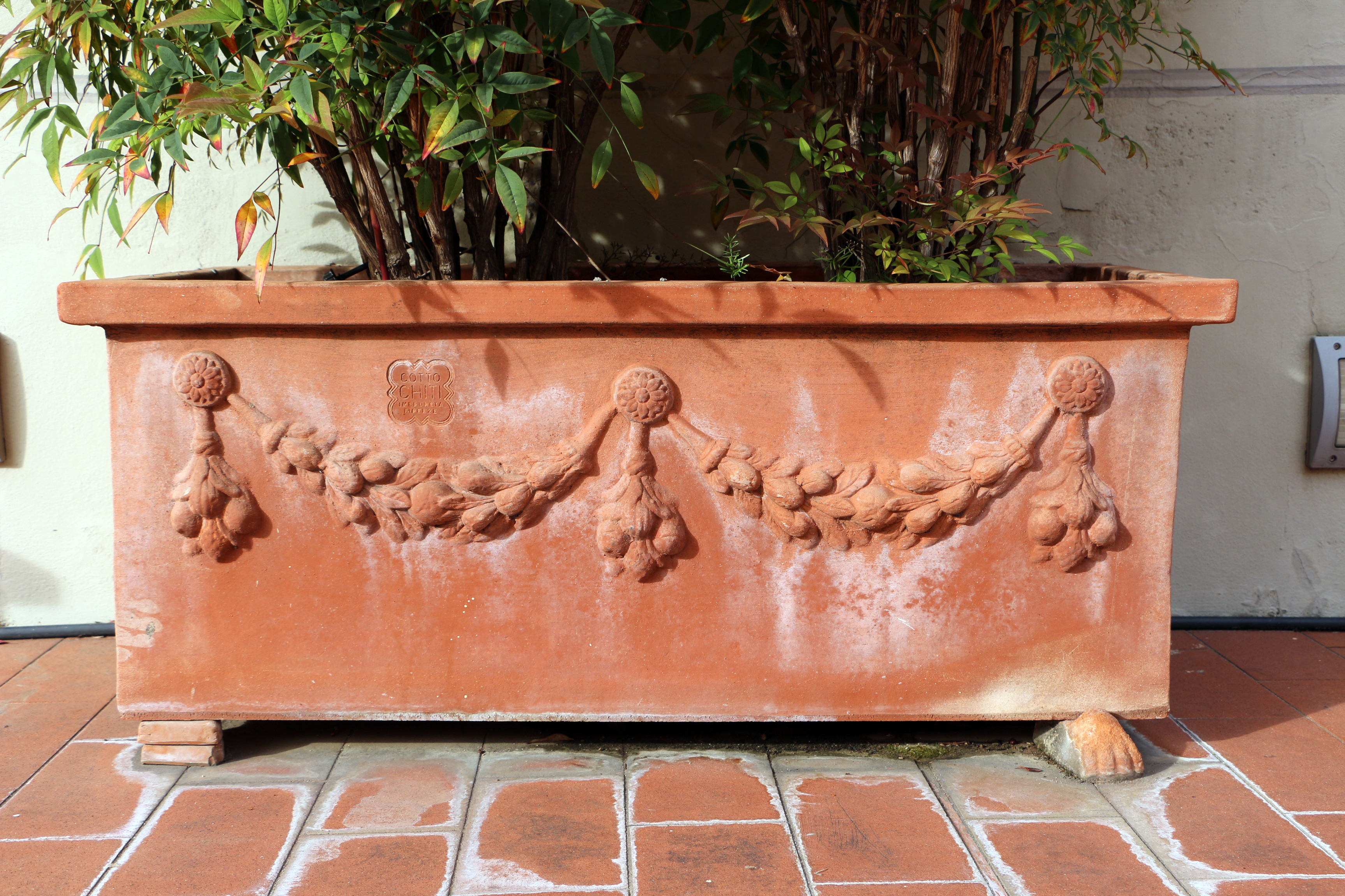 Palazzo Socci, Florence